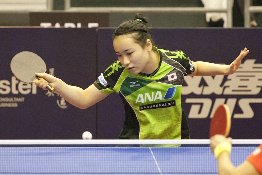 ITTF World Tour 2017 German Open, Magdeburg, Germany, 7 Nov 2017 - 12 Nov 2017, Mima Ito